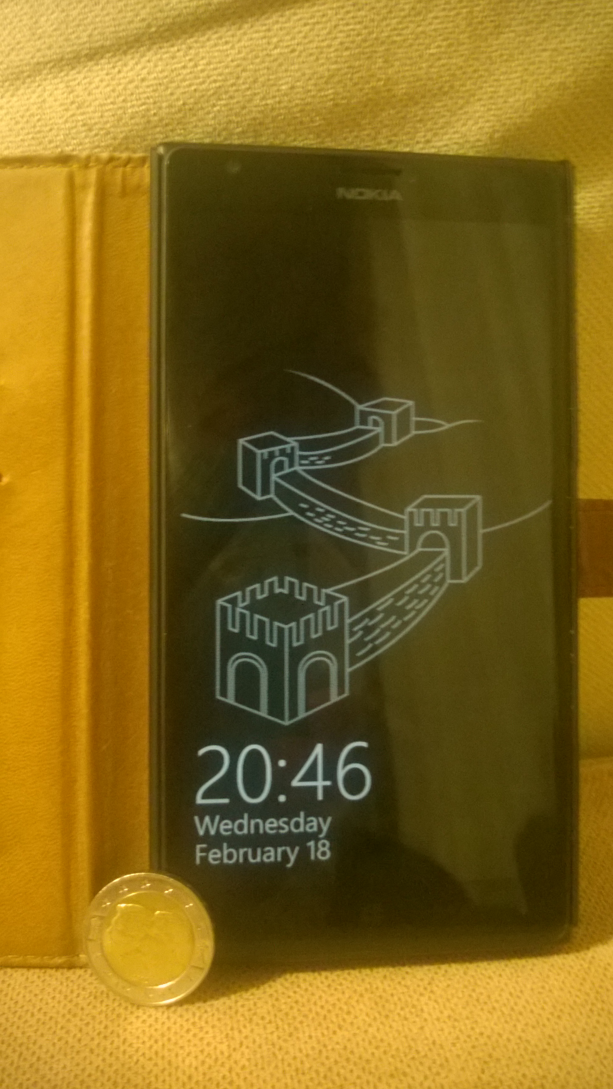 Size-comparison between a € 2,- coin and the Nokia Lumia 1520 mobile phone.